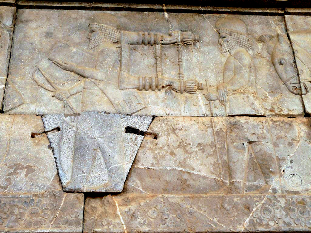 Relief, Superior register, Northern Panel, Eastern Stairway, Apadana palace. Persepolis, Iran